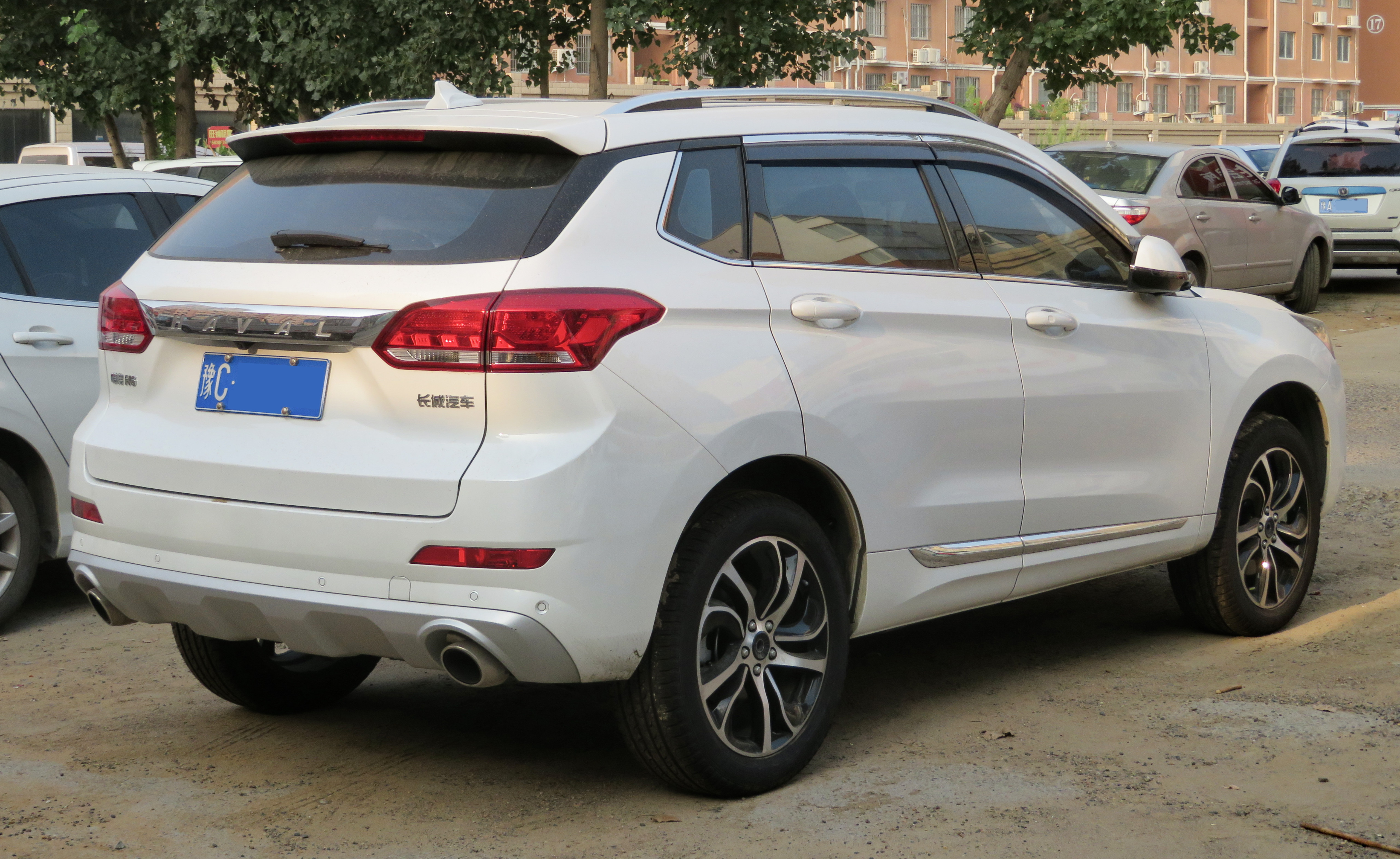 A 2018 Great-Wall Haval H6 Coupe photographed in Xigong District, Luoyang, Henan province, China